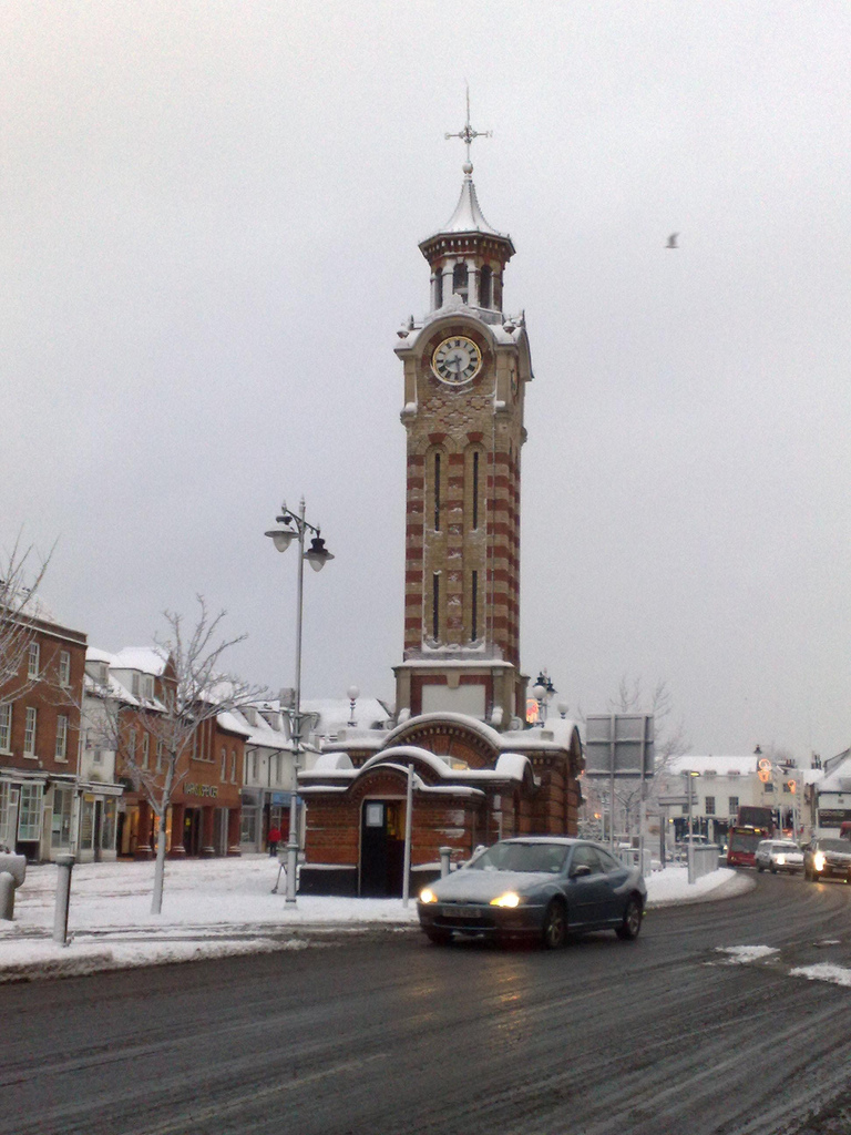 The clock tower in the town of Epsom, Surrey, England.